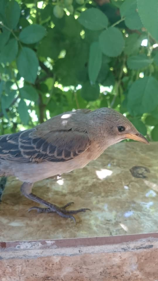 Pastor roseus (juvenile)